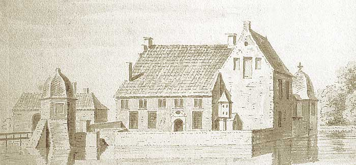 A drawing of Hof te Boekelo at Boekelo, the Netherlands.